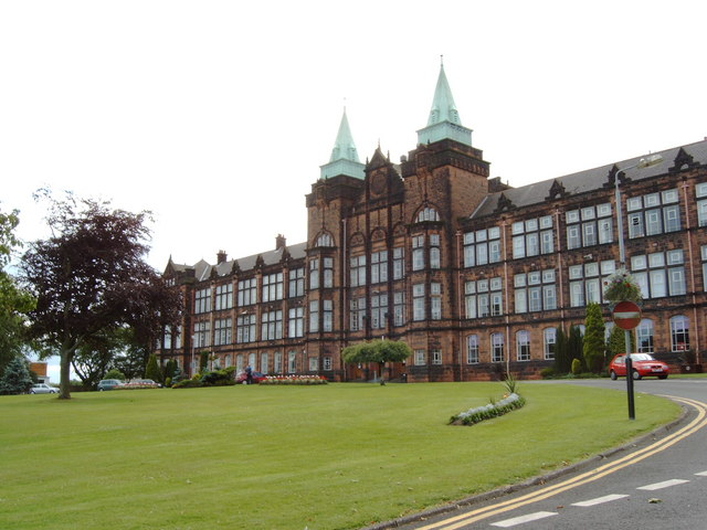 University of Strathclyde, Jordanhill campus